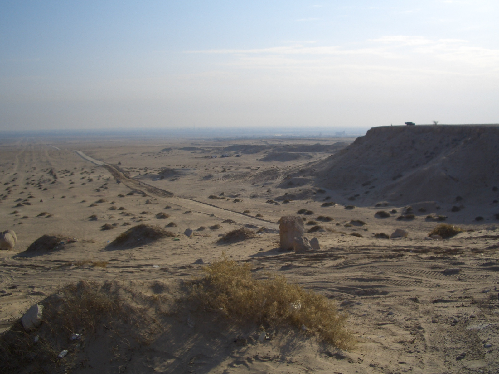 View from the Mutlaa Ridge in Kuwait